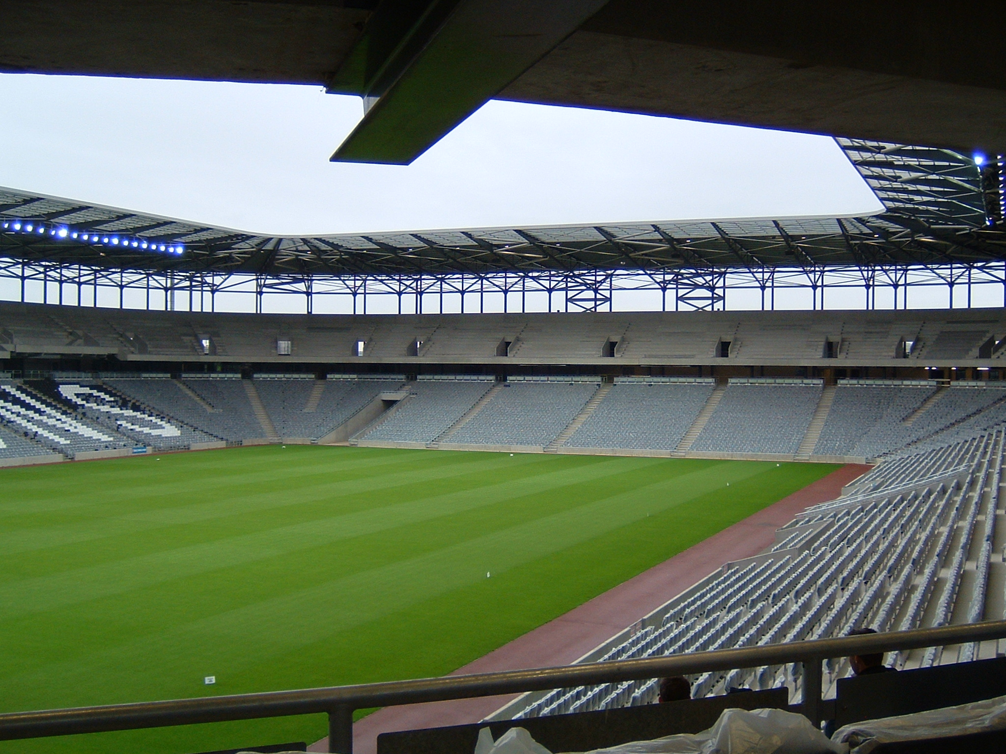 Photo of the South (Cowshed) stand of Denbigh Stadium taken 16 May 2007